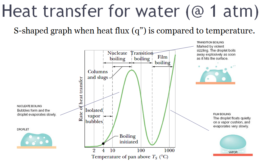 Results of how an increase in a hot plate's temperature affects the time taken for the droplet to completely evaporate leading to Leidenfrost effect.